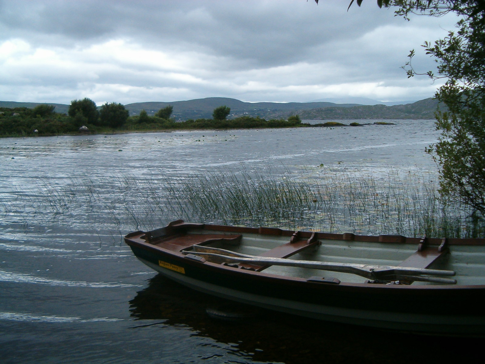 Lough Currane, near Waterville, County Kerry, Ireland